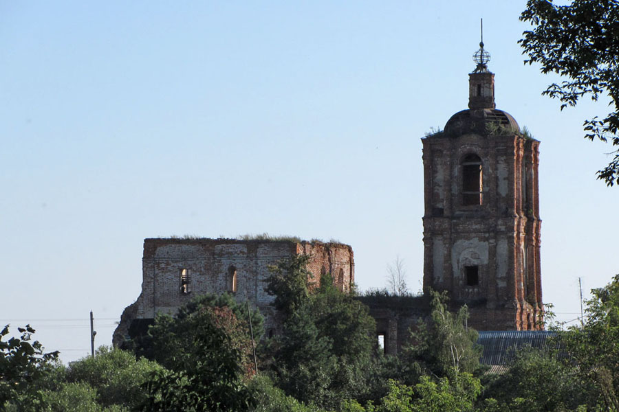 Peremyshl, Federalnaya st.